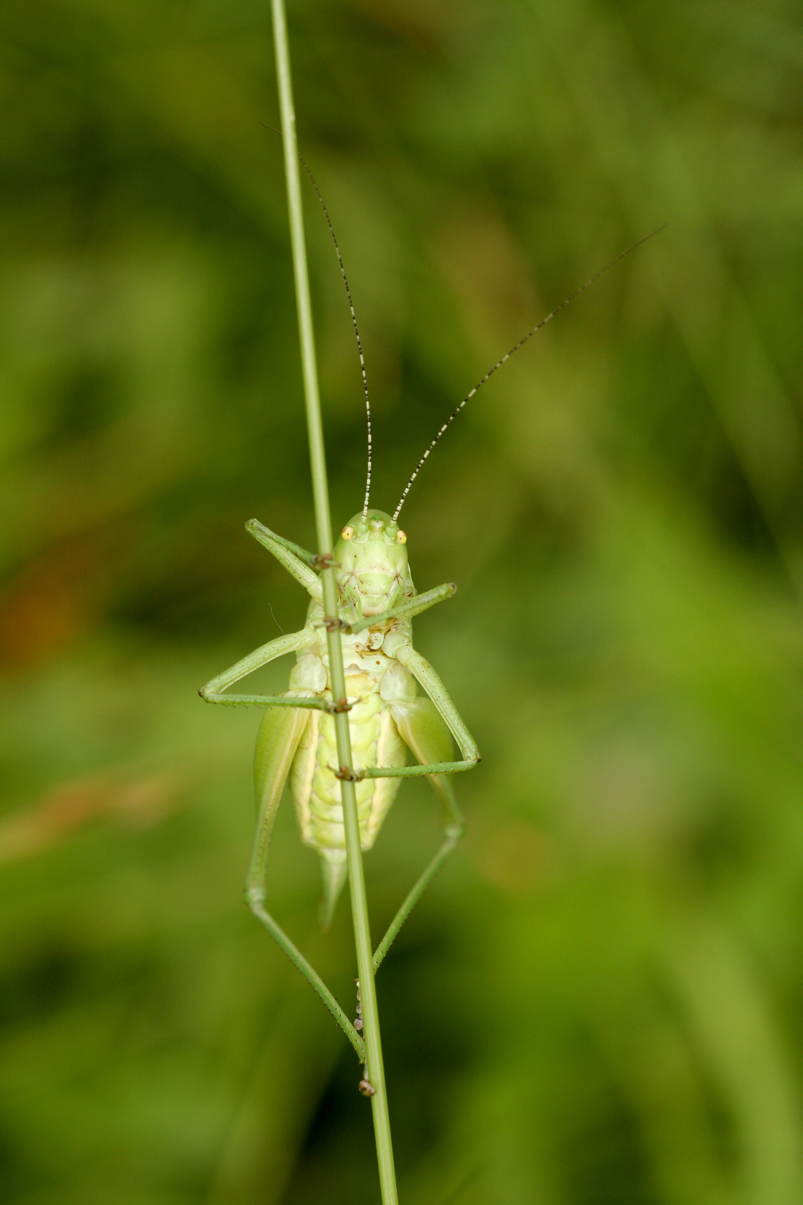 A Poecilimon ornatus female climbing a stalk on a karst meadow in SW Slovenia.